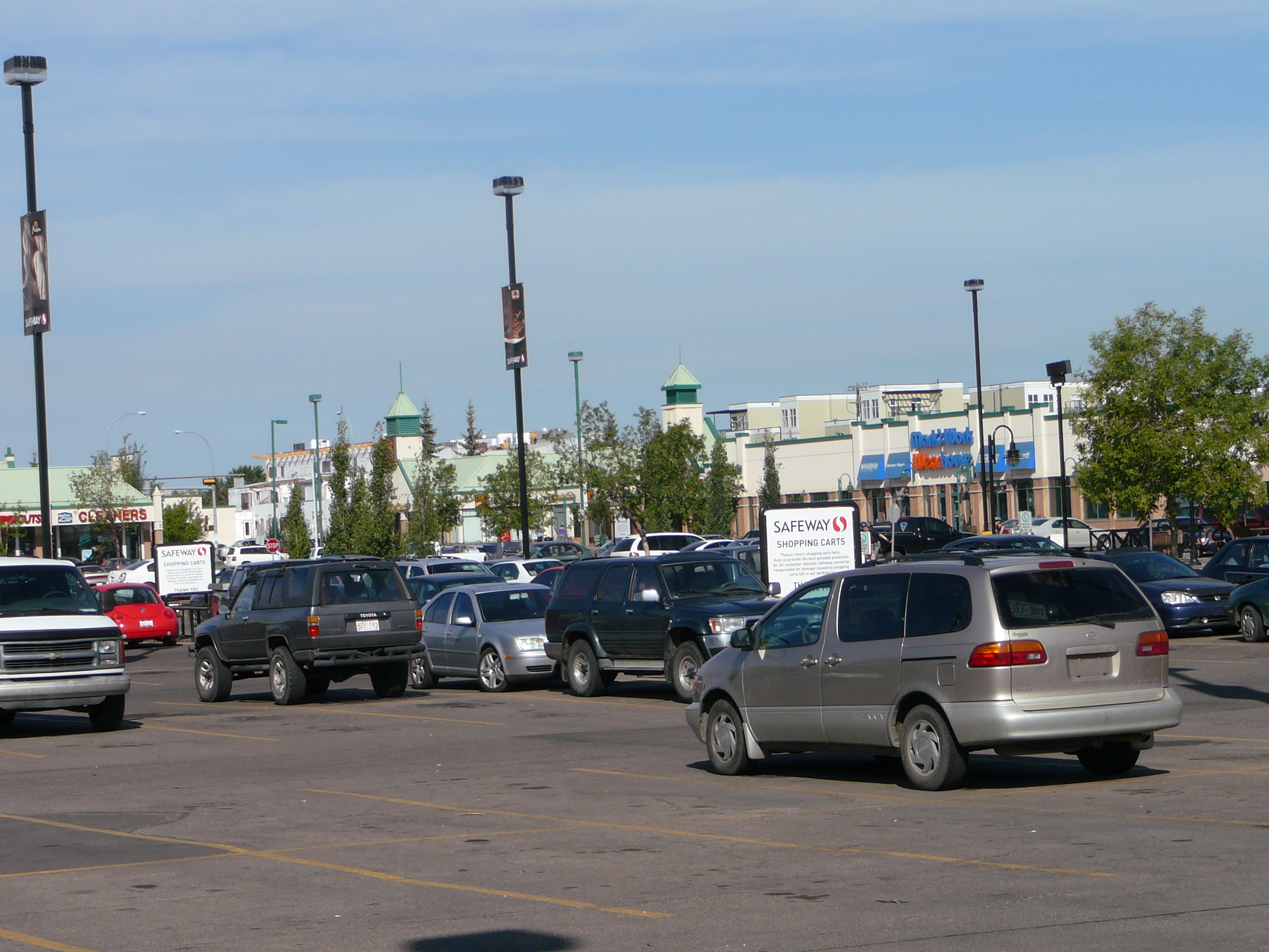 Picture of the Oliver Square strip shopping Centre in Edmonton, Canada